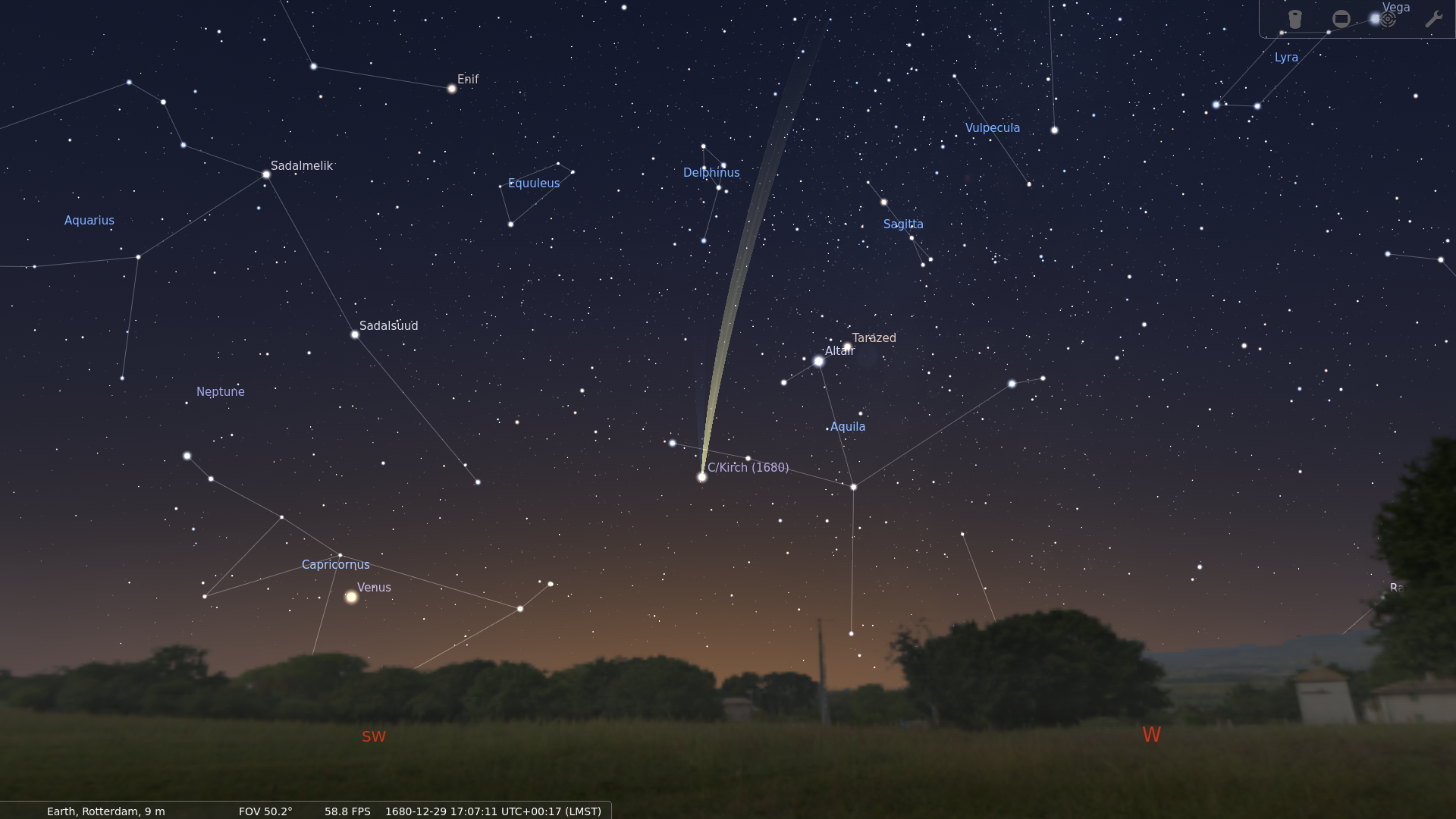 Comet Kirch from Rotterdam on 1680-12-29, simulated in Stellarium. Note that showing historical comets in Stellarium requires enabling the Solar System Editor plugin and loading "ssystem_1000comets.ini", as covered in section 12.8 of the Stellarium user manual.